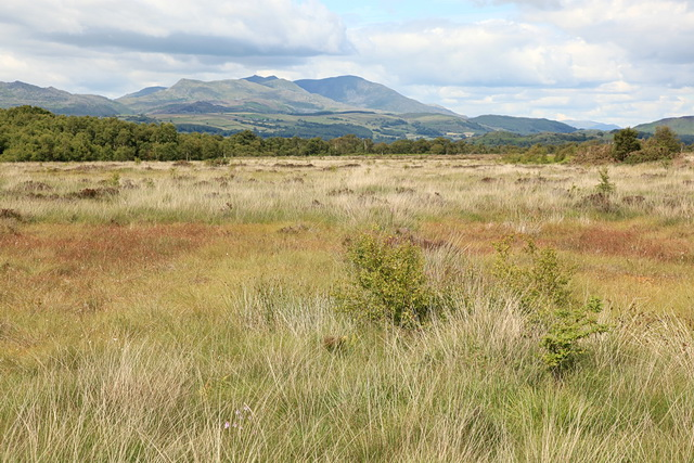 View across the Duddon Mosses. The Coniston Fells, Dow Crag and The Old Man, are the prominent peaks in the distance.